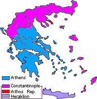 Territorial organisation of the Greek Orthodox Church in Greece